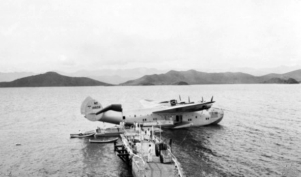 The United States Pan American Airways Boeing 314A flying boat Pacific Clipper (NC18609, renamed California Clipper for a few months in 1941) which brought Governor Sautot, the Free French Governor appointed by General de Gaulle and Governor General Brunot to Noumea, New Caledonia.